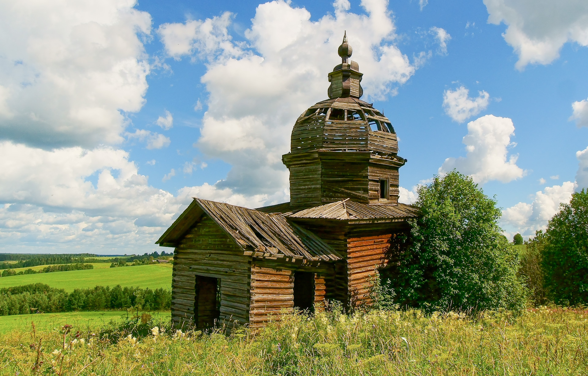 Часовня Неопалимая Купина в Селиваново